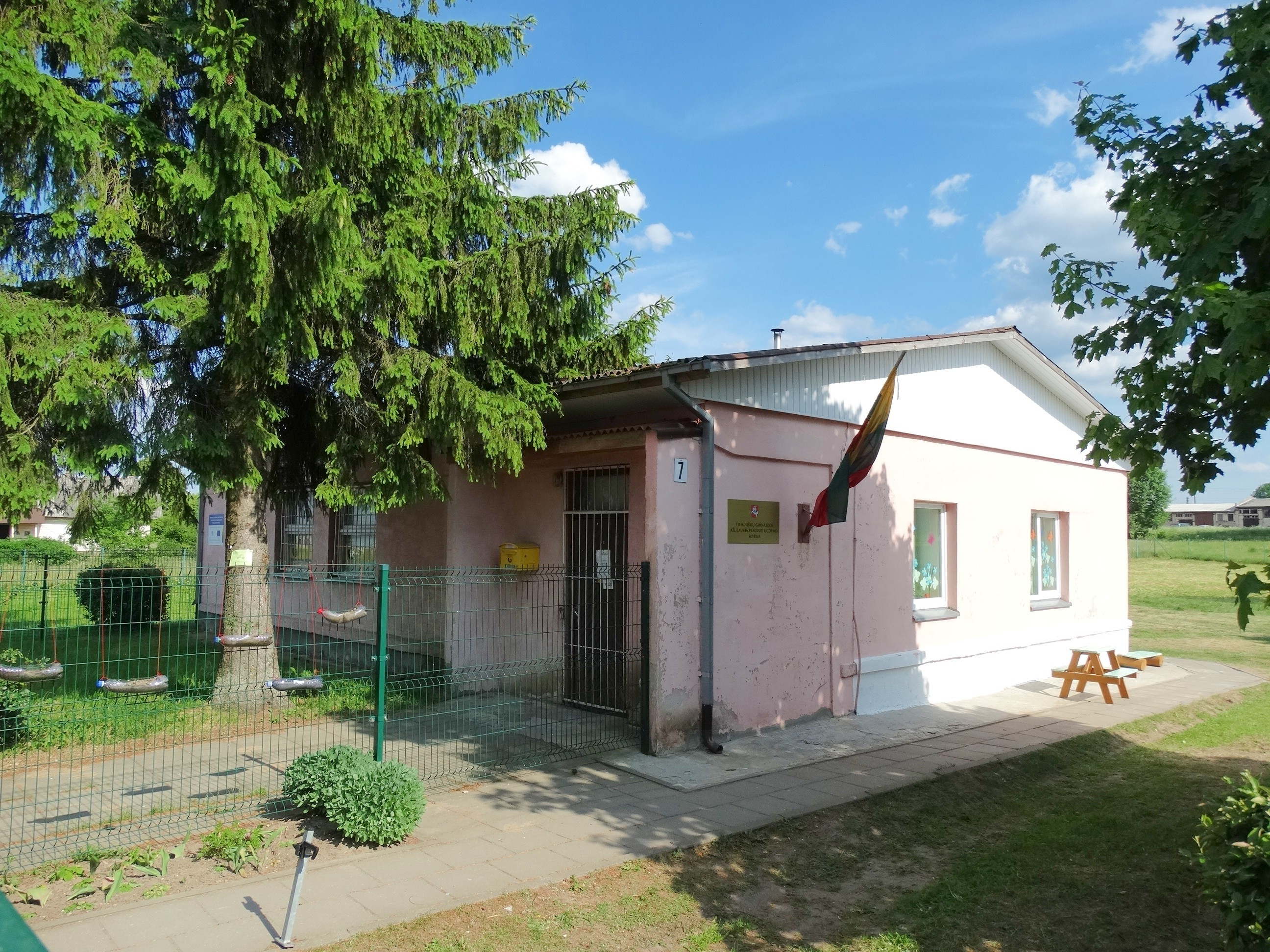 School, Ažulaukė, Vilnius district, Lithuania